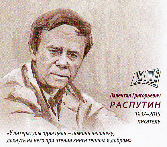 Russian postal card of Valentin Rasputin.